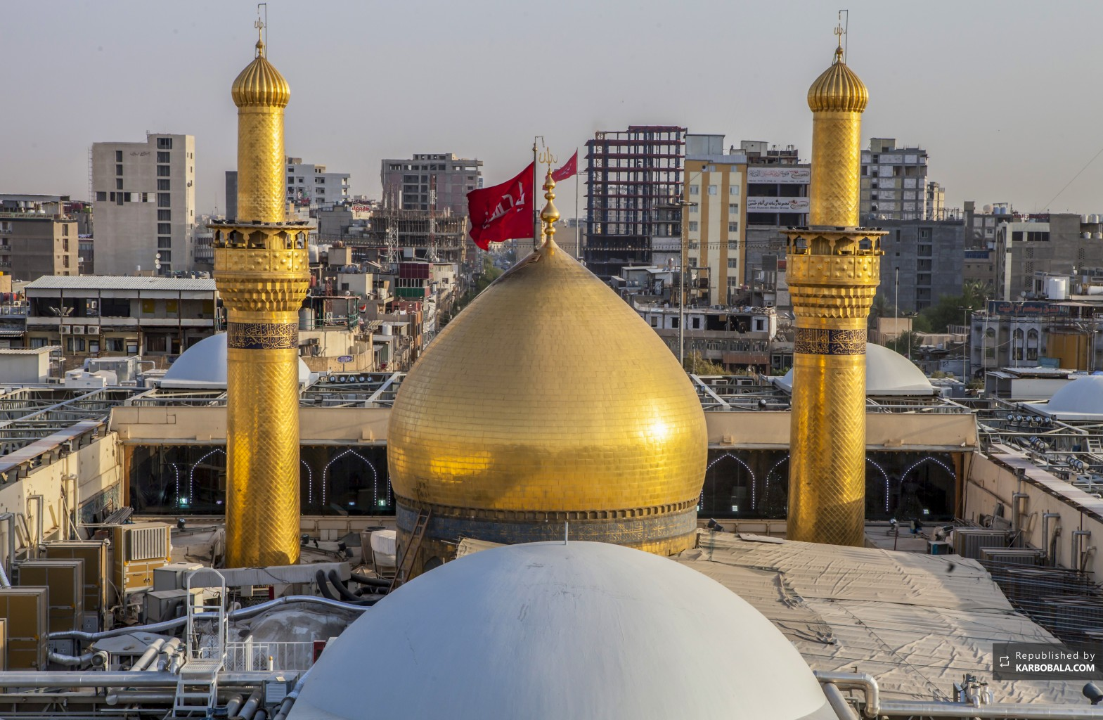 Karbala City in Iraq